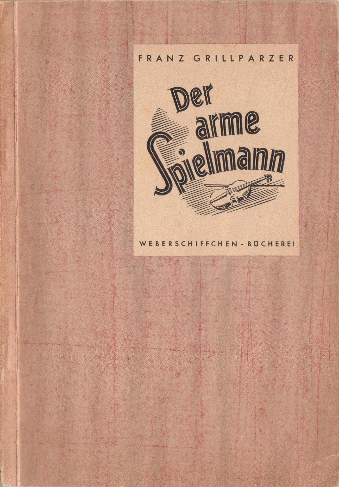 Frontcover of Nr. 58 of the series Weberschiffchen-Bücherei from 1943 (Leipzig J.J. Weber publishers)